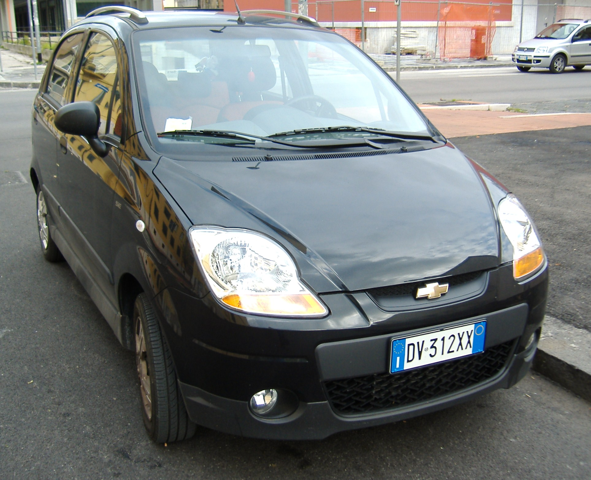 Matiz M250